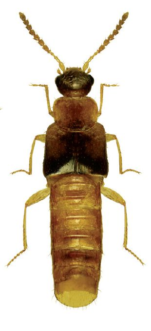 Dorsal view of Gyrophaena (G.) insolens (apical part of abdomen removed).